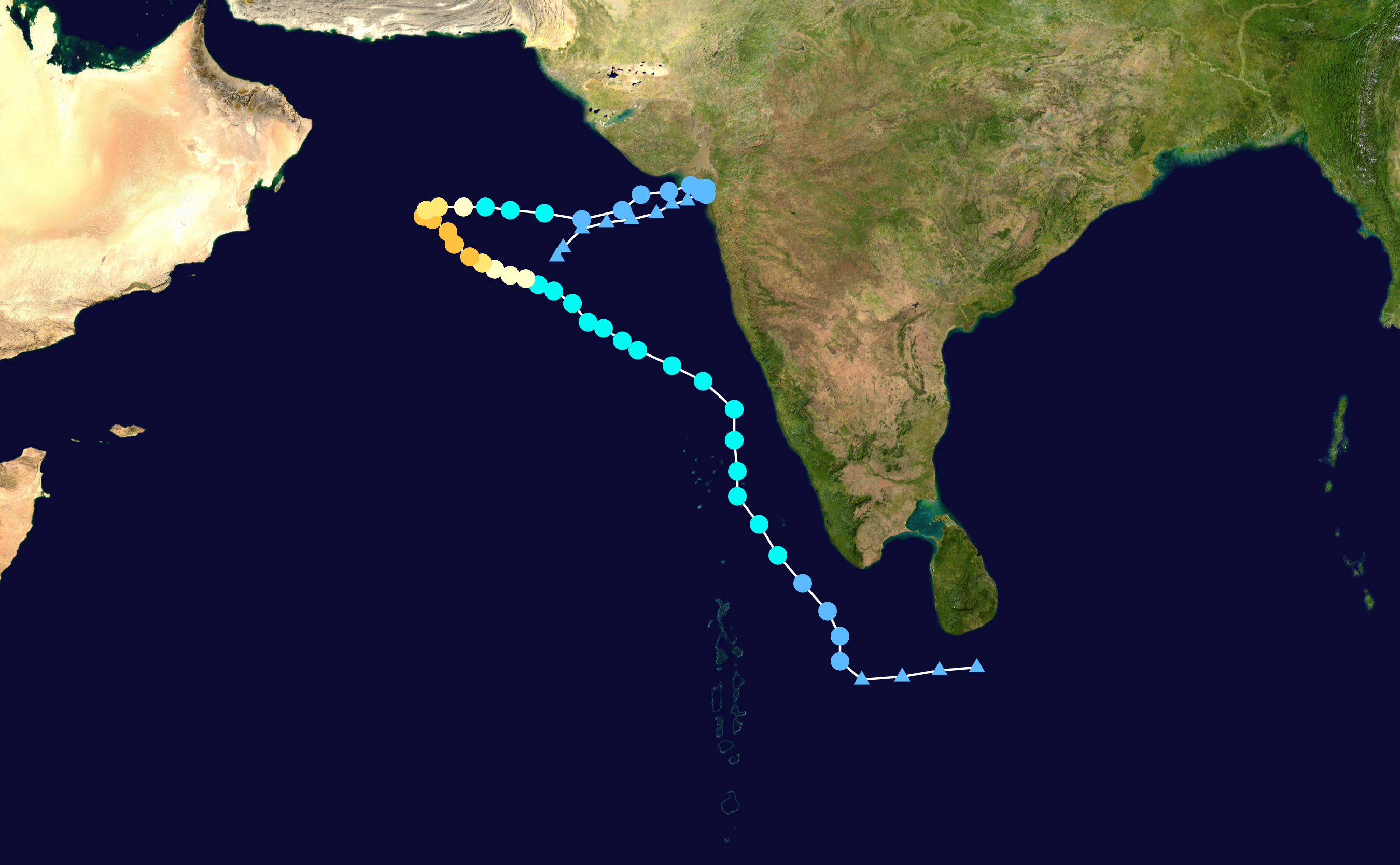 Track map of Extremely Severe Cyclonic Storm Maha of the 2019 North Indian Ocean cyclone season. The points show the location of the storm at 6-hour intervals. The colour represents the storm's maximum sustained wind speeds as classified in the Saffir–Simpson scale (see below), and the shape of the data points represent the nature of the storm, according to the legend below. Saffir–Simpson scale Tropical depression≤38 mph≤62 km/h Category 3111–129 mph178–208 km/h Tropical storm39–73 mph63–118 km/h Category 4130–156 mph209–251 km/h Category 174–95 mph119–153 km/h Category 5≥157 mph≥252 km/h Category 296–110 mph154–177 km/h Unknown Storm type Tropical cyclone Subtropical cyclone Extratropical cyclone / Remnant low / Tropical disturbance / Monsoon depression